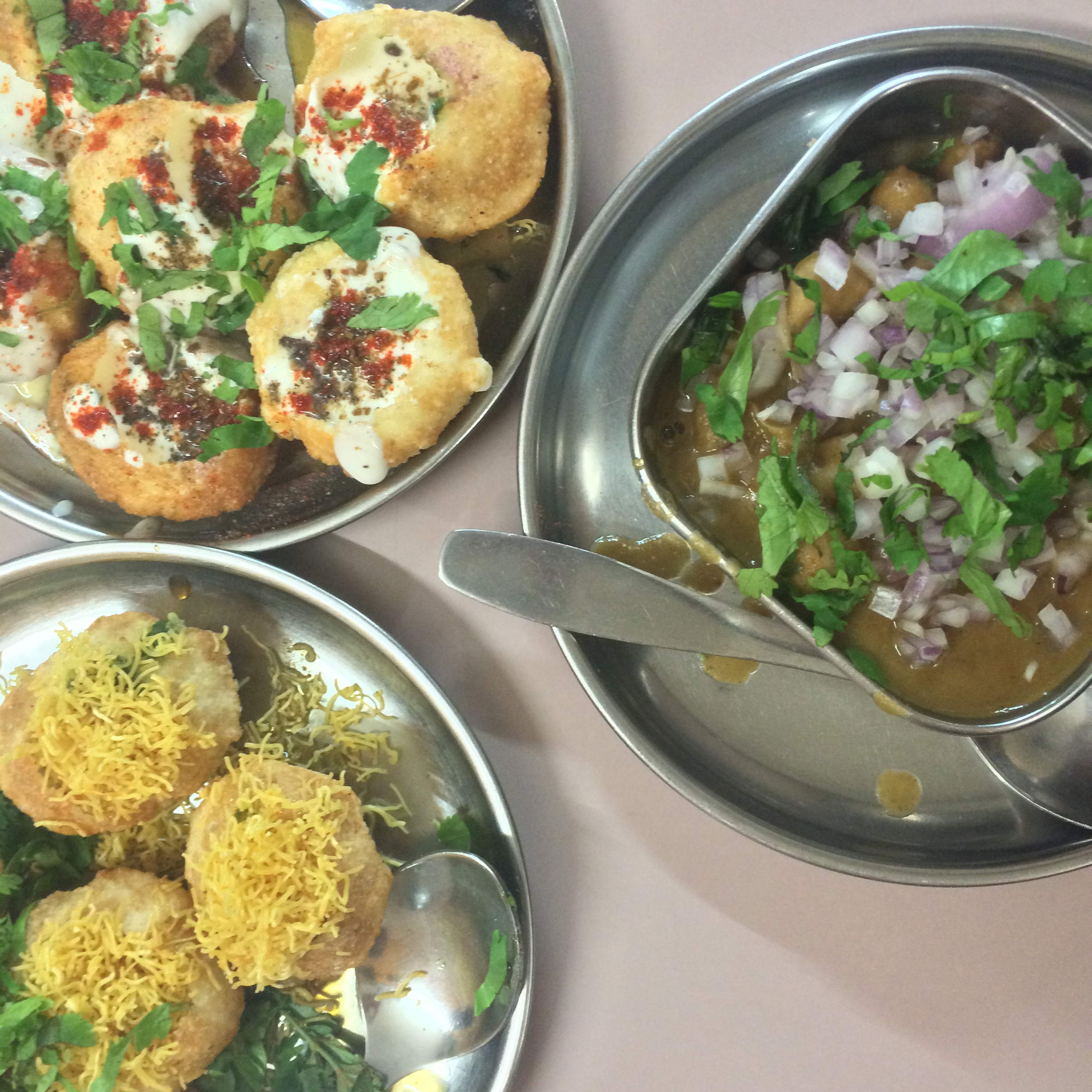 sev puri, dahi puri, samoosa chaat